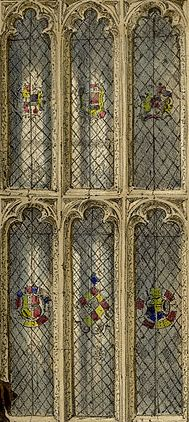 Painted glass, 1520/30 in a window at Sutton Place, Guildford.